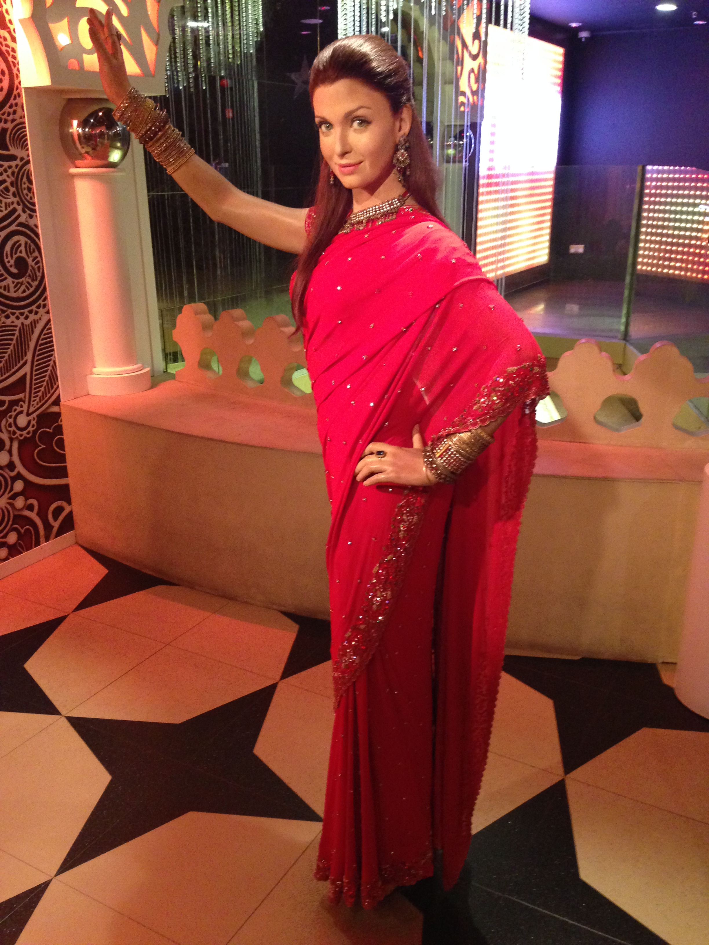 Aishwarya Rai Bachchan at Madame Tussauds London - November 1st, 2016